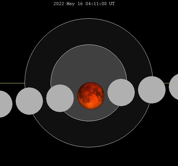 May 2022 lunar eclipse chart of moon's total lunar eclipse path through the earth's shadow. thumb